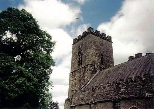 I, Owen Cook, took this picture in 1995. St Germans church, Cornwall.